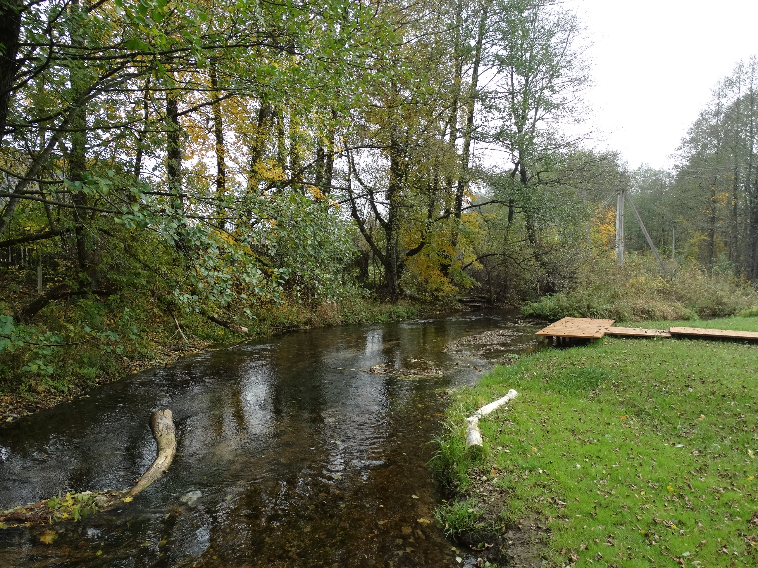 Baltoji Ančia River, Kapčiamiestis, Lithuania